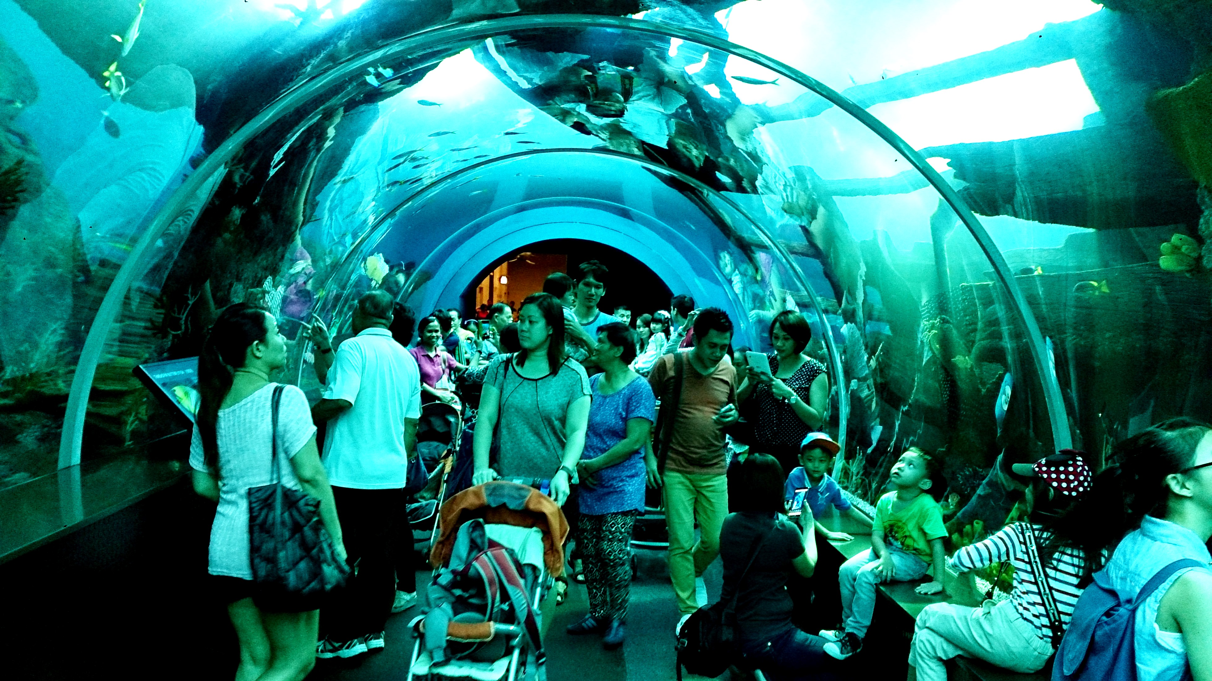 S.E.A. aquarium at Resorts World Sentosa, Singapore